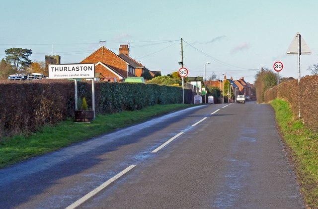 Croft Road enters Thurlaston This is the southern edge of this Leicestershire village.